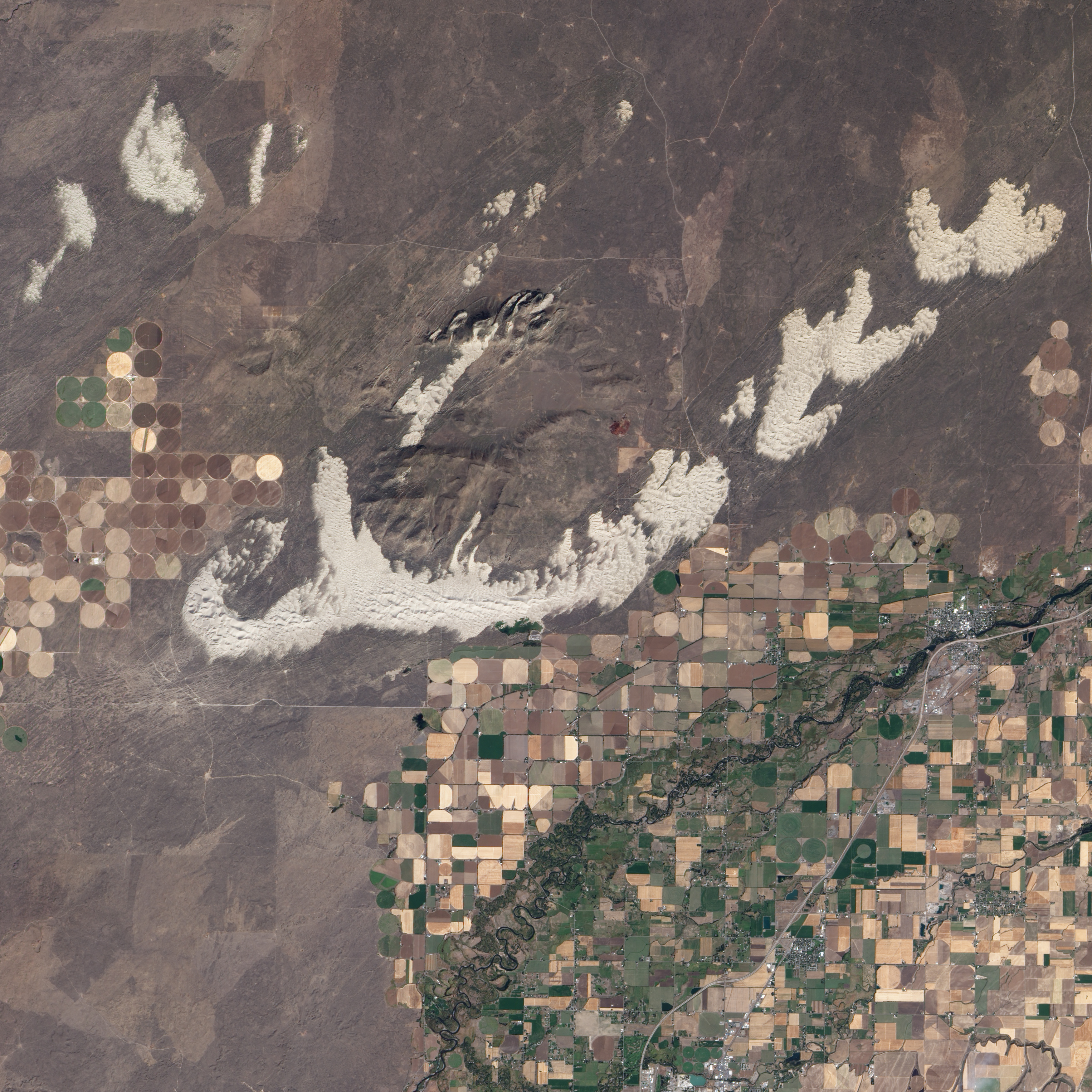 Dunes spill across the Snake River Plain in a wide arc in this detailed, photo-like image. Freshly harvested fields line the southern boundary of the dunes, and to the north is a darker brush-covered lava plain. The dunes formed about 10,000 years ago, at the end of the last ice age when the Earth’s climate shifted. Eastern Idaho’s climate became warmer and drier. Lakes shrank, exposing fine sand. Persistent winds from the south-west blew the sand north-east across the lava plain visible in the lower left corner of the image. Dunes form only when sand encounters a soft surface or obstacle that prevents it from blowing away. The St. Anthony Dunes began to form when the sand reached the weathered mass of the Juniper Buttes, extinct volcanoes. Each individual dune forms a curve, with ends pointing north-east in the direction of the wind. This type of dune is a barchan dune, Arabic for ram’s horn. East of the volcanoes, the sand encountered another obstacle that kept it in place: more dunes. These older dunes, longitudinal dunes, are plant-covered sand dunes that formed in a previous, more arid climate, says Idaho State University geologist Paul Link. The longitudinal dunes formed on top of an old flood plain, from a branch of the Snake River, probably from sand blown from the river’s bank. The longitudinal dunes are long, dark stripes under the newer brilliant white dunes—layers of climate history visible at a glance.